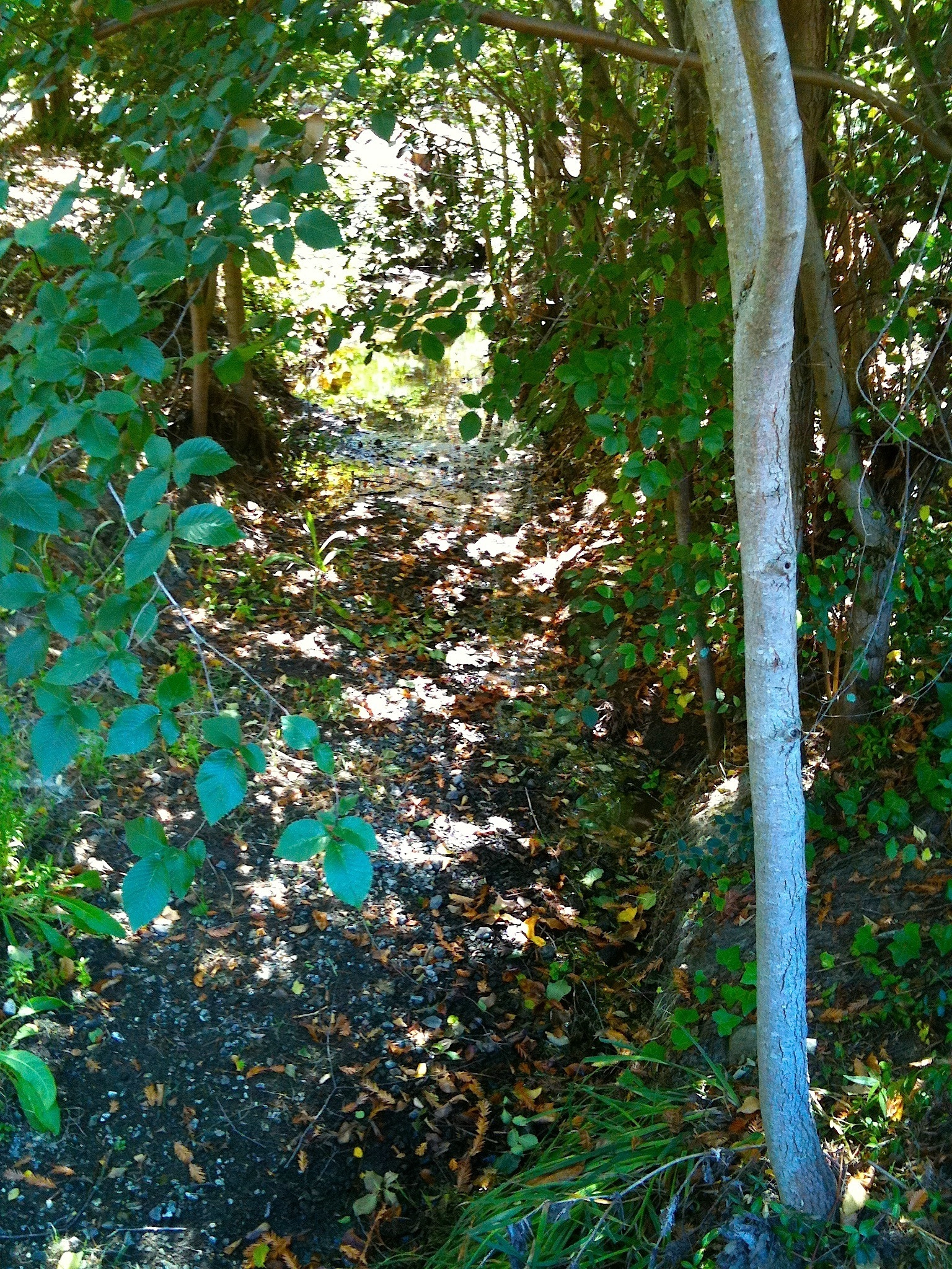 Purisima Creek, a tributary of Adobe Creek, above Los Altos Hills, California. Note the tree is not native red alder, it is non-native Siberian Elm (Ulmus pumila).